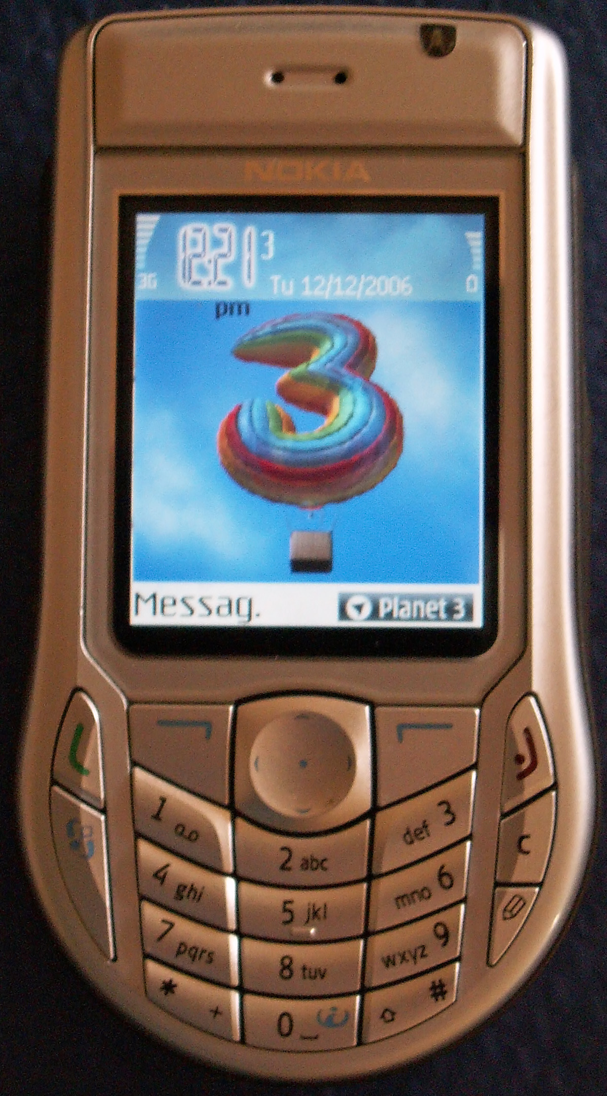 Nokia 6630 mobile phone